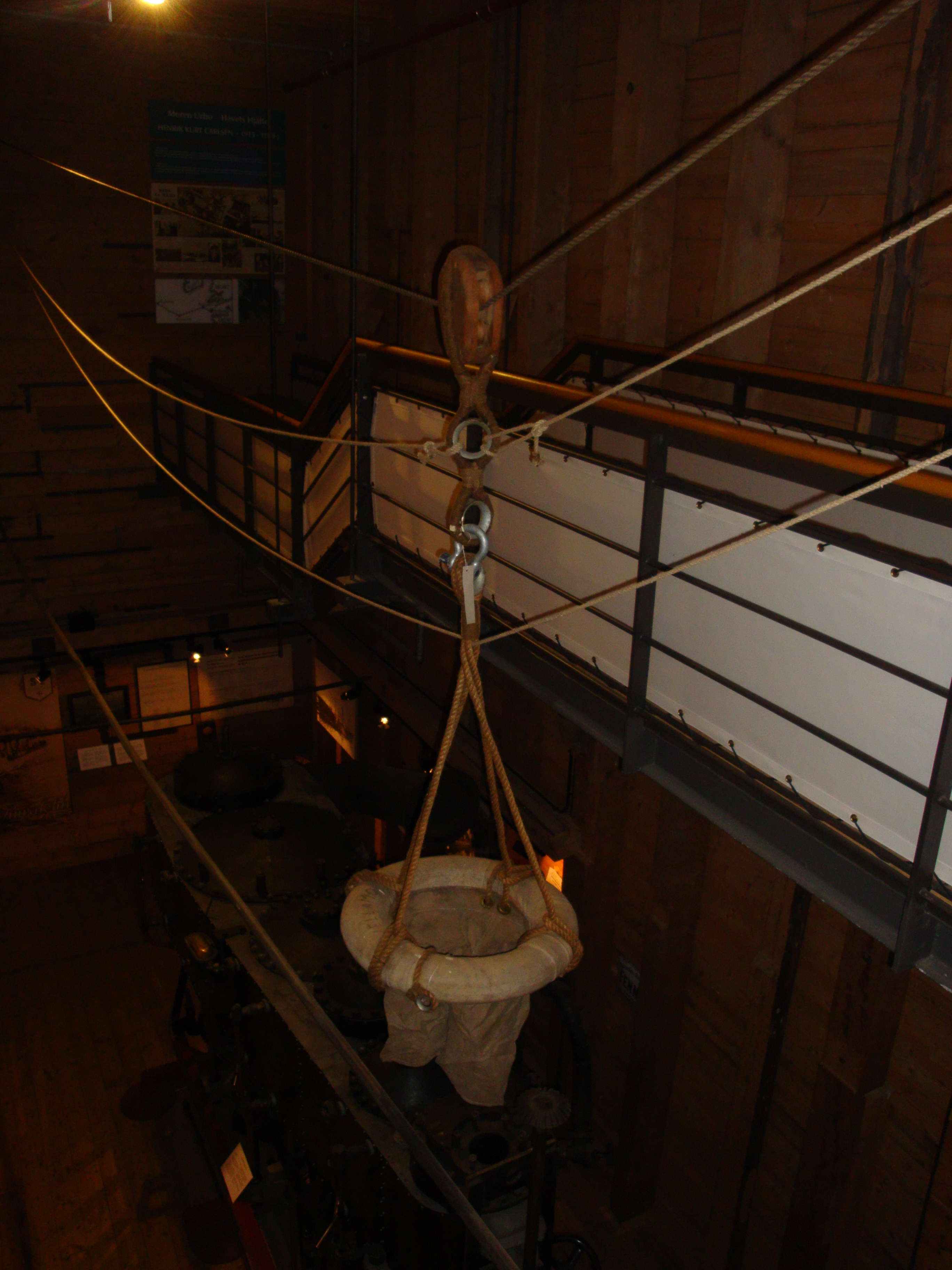 Breeches-buoy for evacuation people from stranded vessels on exhibition in Forum Marinum, Turku, Finland